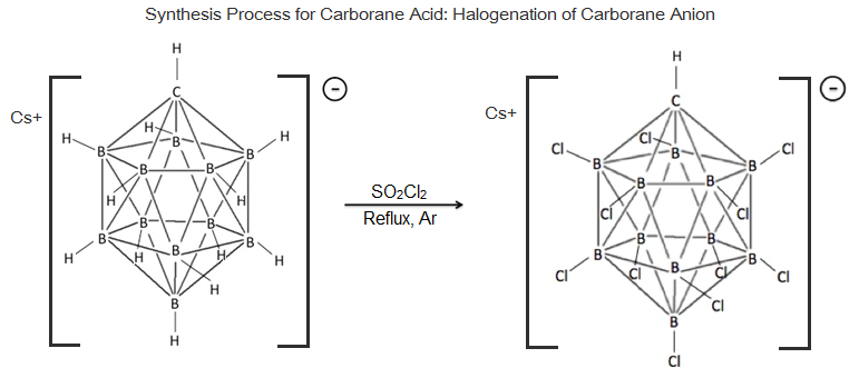 Synthesis of Carborane acid from Cs[HC B11H11] to Cs[HC B11Cl11]